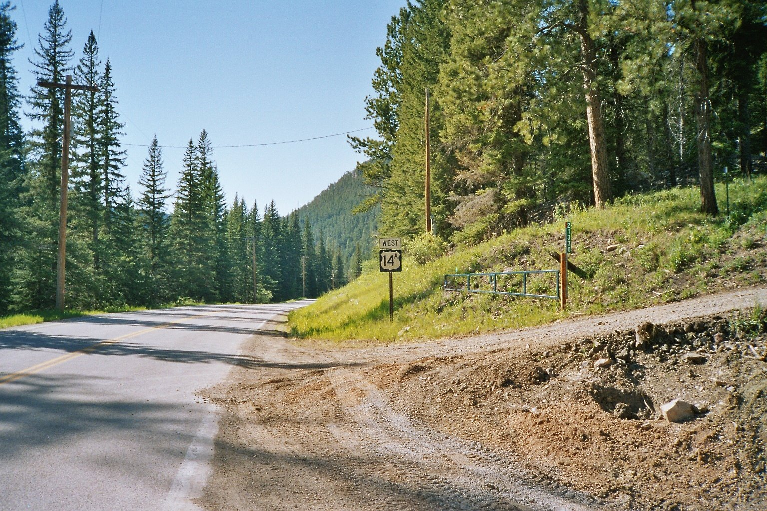 Black Hills SD,US Highway 14a,Lawrence County